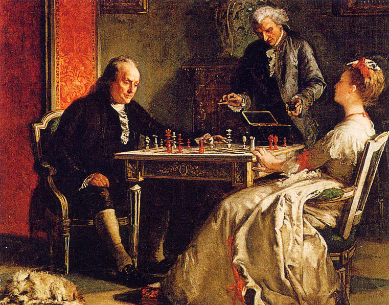 Benjamin Franklin playing chess (Benjamin Franklin jogando xadrez)